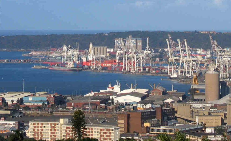 Habour of Durban